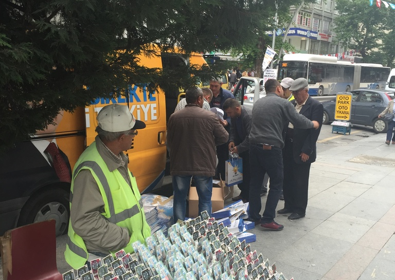 A van belonging to the Justice and Development Party of Turkey (AK Party or AKP) handing out free goods to voters in the run-up to the 2015 general electionTürkçe: Adalet ve Kalkınma Partisi (AK Parti veya AKP) seçim aracı 2015 genel seçimleri öncesi seçmenlere bedava yardım dağıtırken